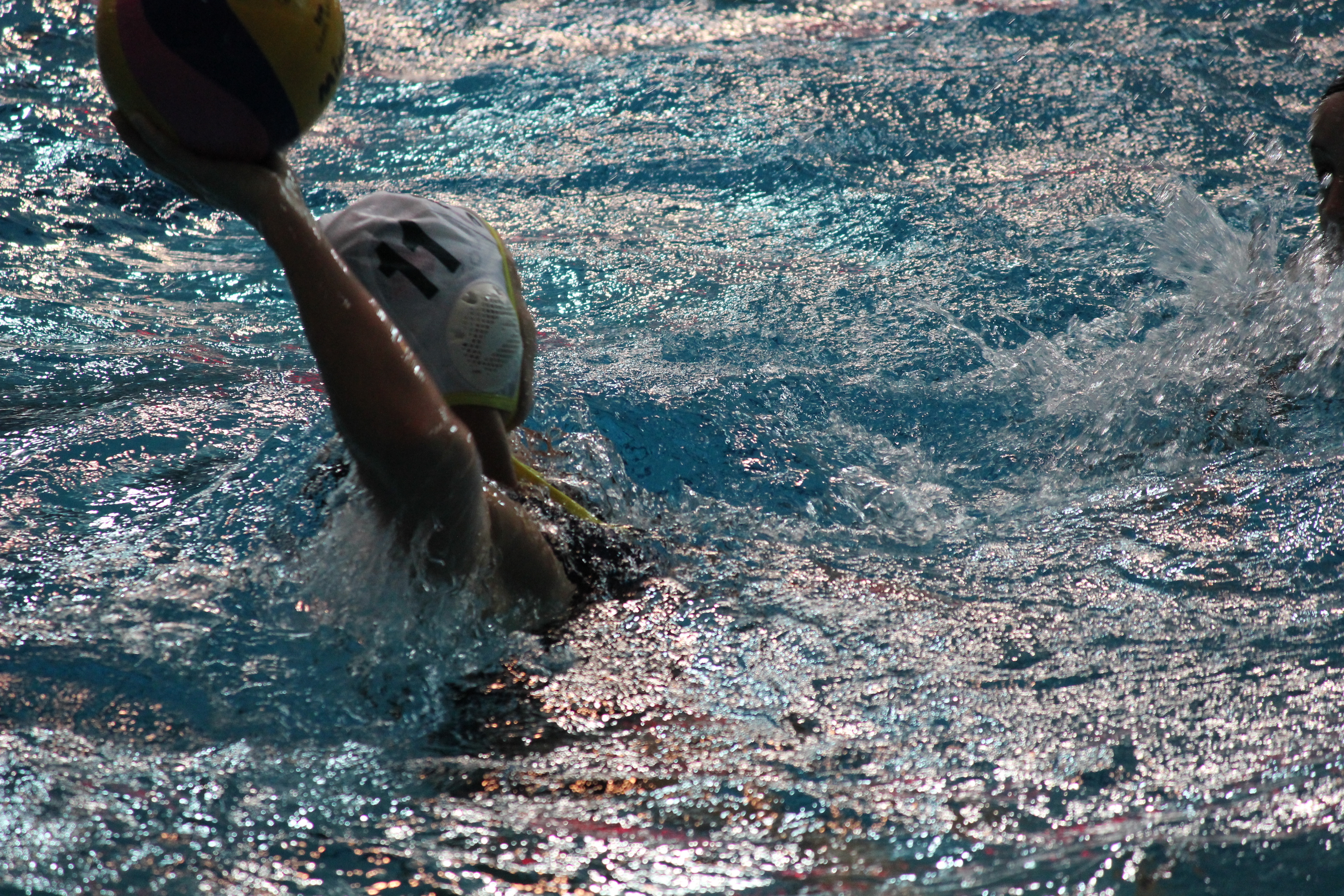 The fifth test game between Australia and Great Britain on 28 February 2012 at the AIS Aquatic Centre. Australia won 14-3. Pictured is Melissa Rippon.